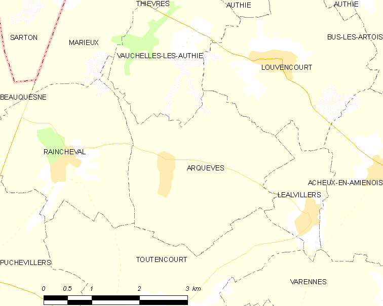 Map of French municipality Arquèves